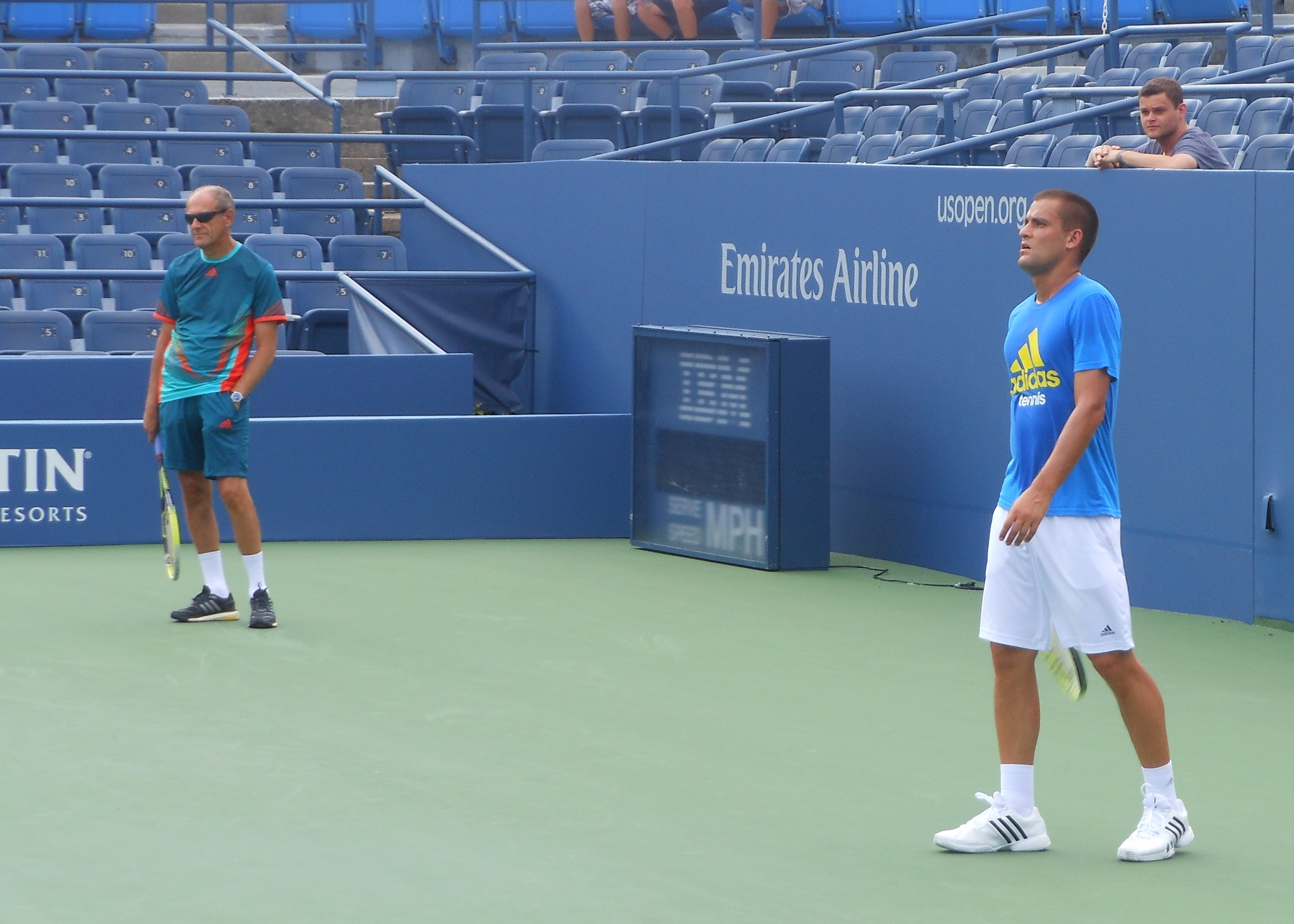 Mikhail Youzhny practicing with his long time coach